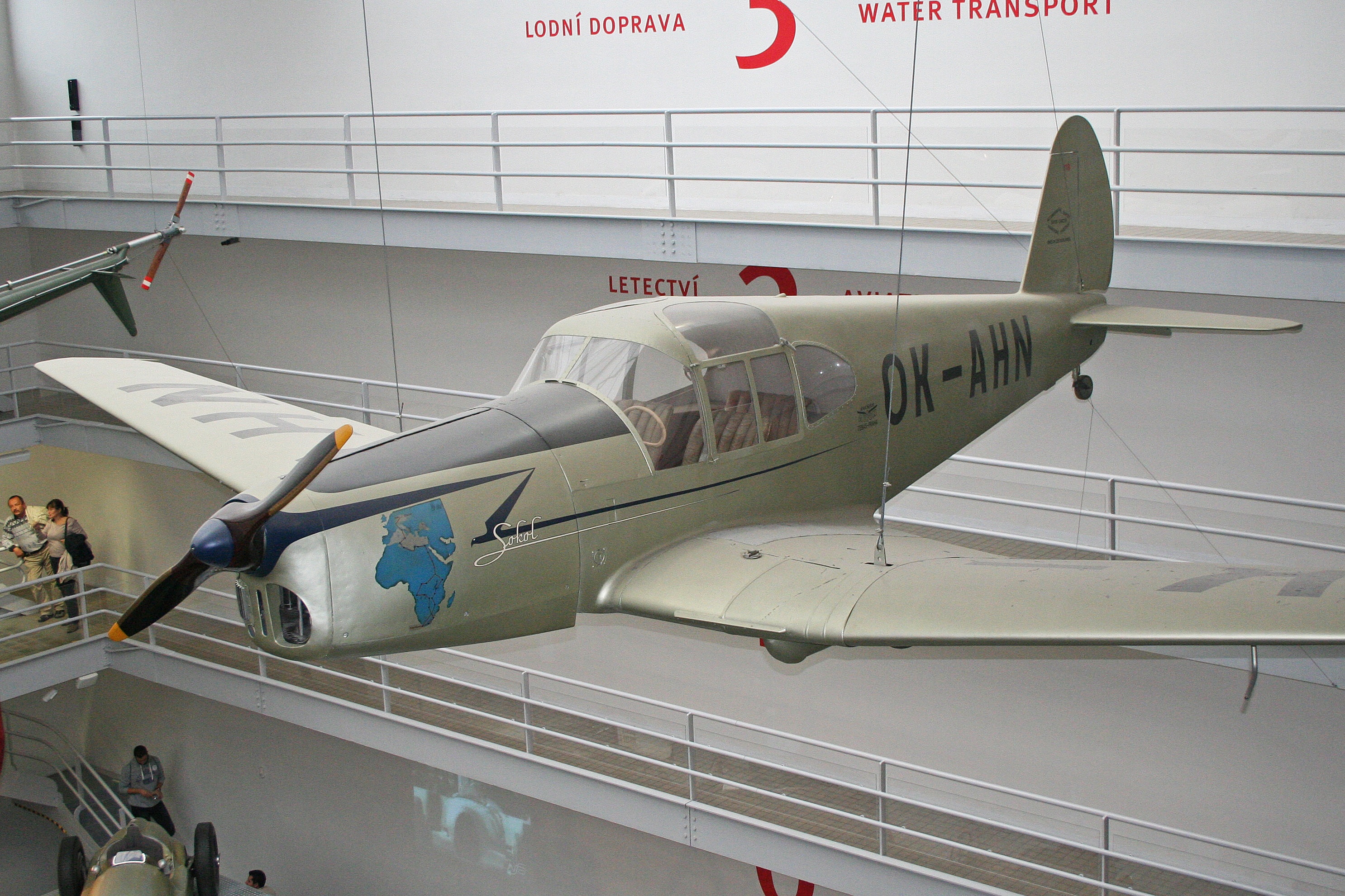 The Sokol was the first post-war Czechoslovakian aircraft. This was a company demonstrator which carried out a distance flight from Prague to Capetown, some 33,000km. msn 118. National Technical Museum, Prague. Czech Republic. 07-10-2012